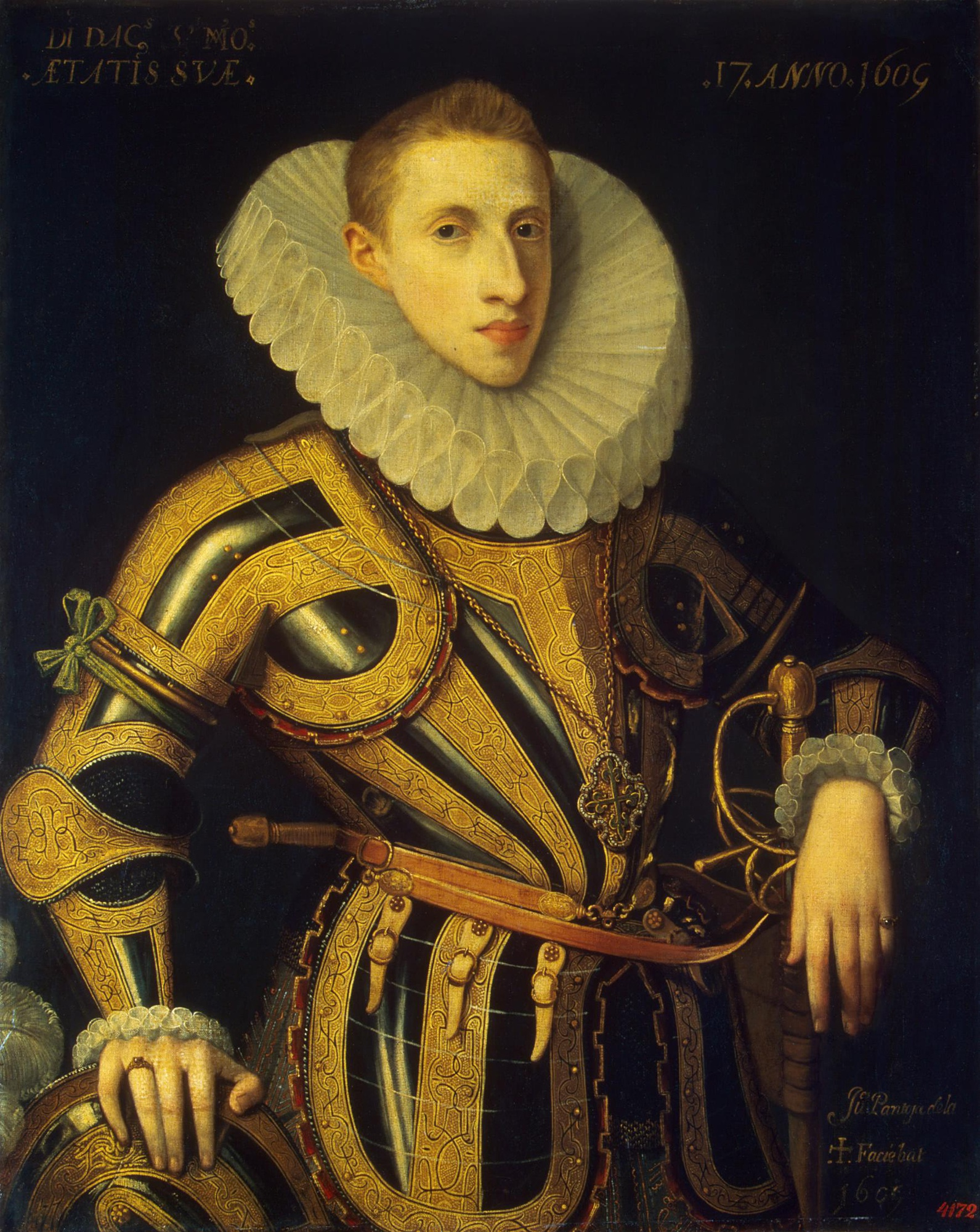 The sitter is wearing a badge of the order of Alcántara. He is identified on the basis of the inscription as Diego Sarmiento de Sotomayor y Viilamayor, son of Diego Sarmiento de Sotomayor, courtier of Philip II[1]